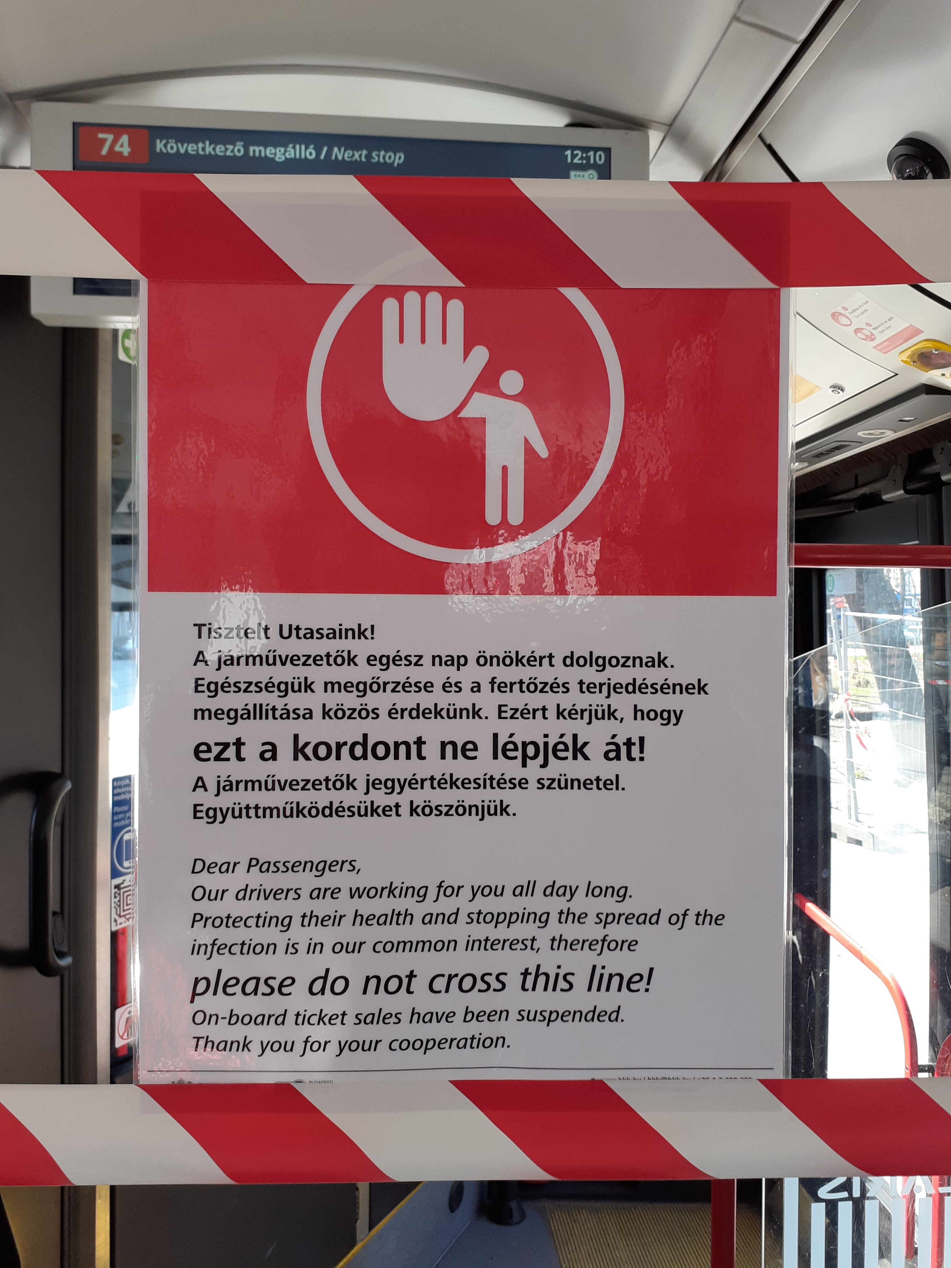 The sign at the closed section near the closed section around the driver's cab in trolleybus 8010 on Line 74 in Budapest, at "Ötvenhatosok tere" trolleybus stop. The section of the trolleybus near the driver's cab is closed to protect the driver from the threat of coronavirus infection.